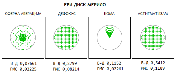 ЕРИ ДИСК МЕРИЛО - ПРИМЕРИ